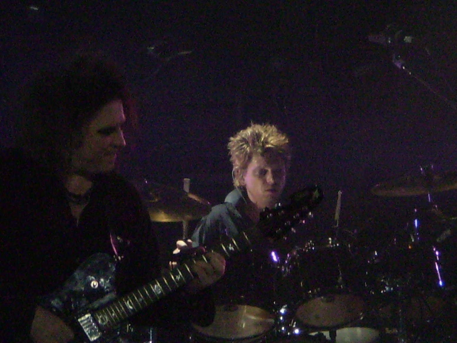 Robert Smith & Jason Cooper of The Cure live in Rome